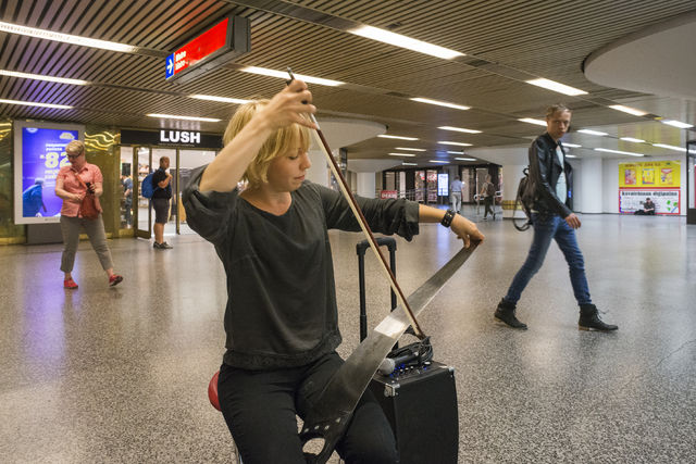 Photograph of the Finnish actor and musician Vilma Putro (1988–) playing saw in Helsinki Central Railway Station, Asematunneli.